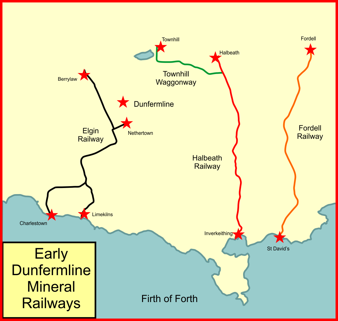 Map of the early waggonways in the Dunfermline artea of Scotland